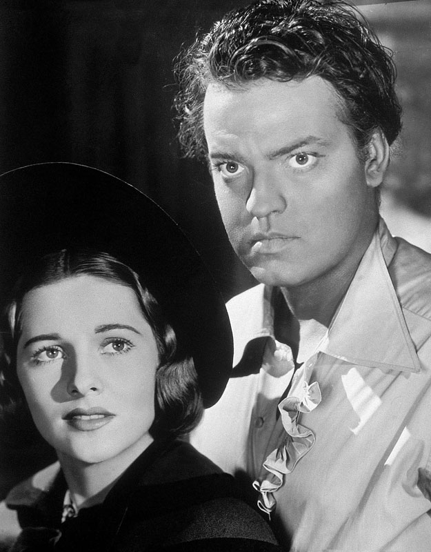 Promotional photograph for the 1943 film Jane Eyre